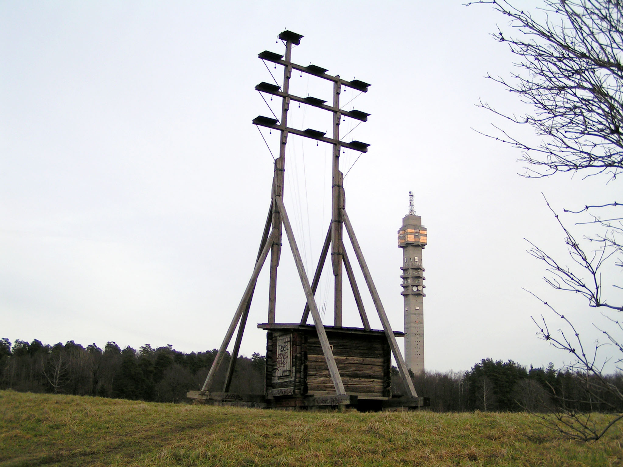 Late 18th century optical telegraph (replica) at Gärdet in Stockholm. In the background, 20th century telecommunication tower Kaknästornet.